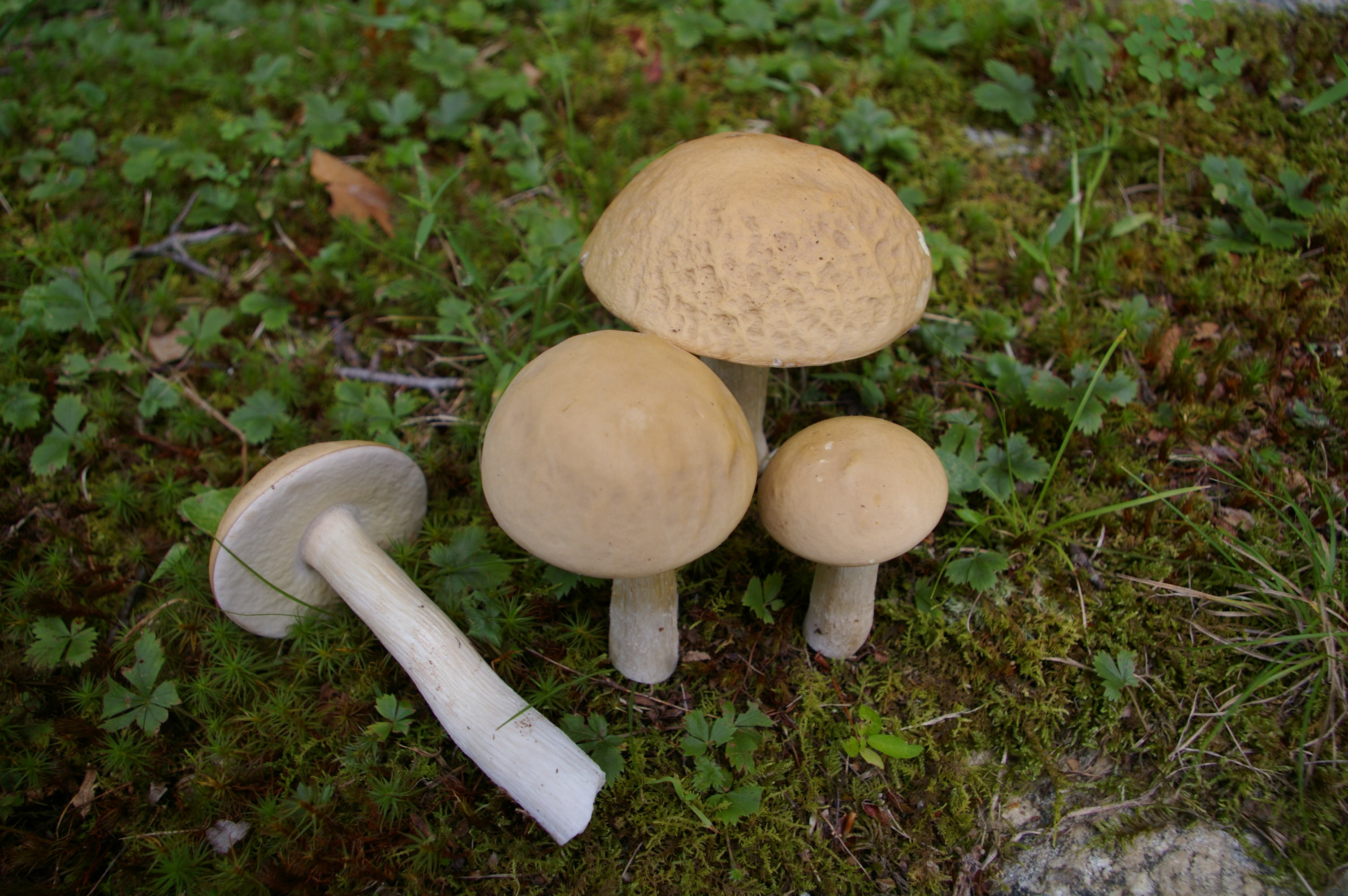 Boletus gertrudiae Peck Location: Hadlyme, Connecticut, USA Observation Notes: I have little doubt this mushroom is mistaken frequently for both Boletus variipes and Boletus nobilis which it closely resembles. it also resembles old specimens of Xanthoconium seperans. I picked about 100 of these yesterday and only about 10 had the golden zone at the apex of the stipe. The flesh of these is very thin, they are all tubes. This is named for Gertrude Wells a turn of the 20th century painter from my town of Lyme CT[admin – Sat Aug 14 02:00:59 0000 2010]: Changed location name from ‘Hadlyme. CT’ to ‘Hadlyme, Connecticut, USA’ For more information about this, see the observation page at Mushroom Observer.